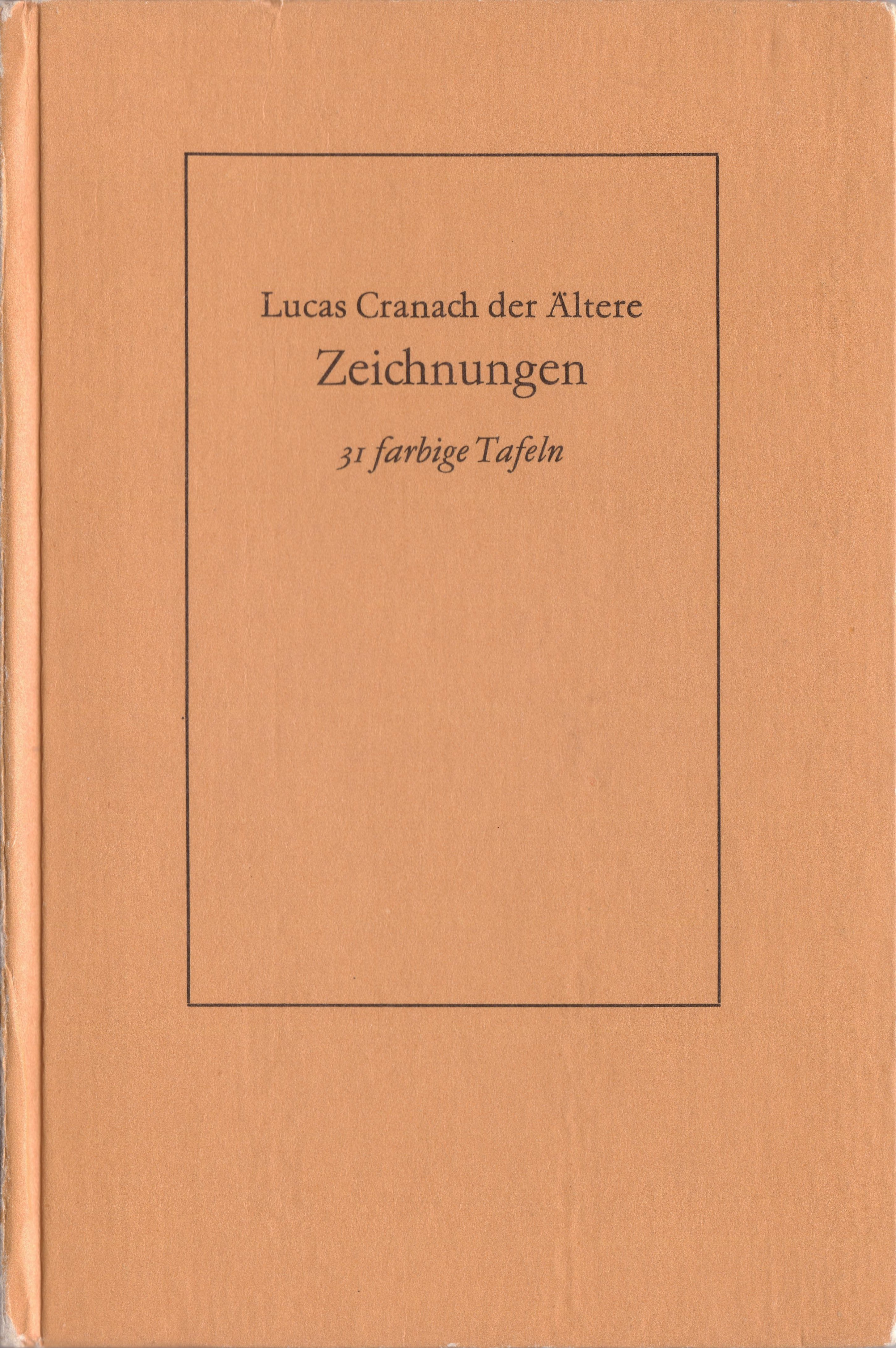 Lucas Cranach: Zeichnungen, Globus Verlag Wien 1983 (Vorderdeckel)